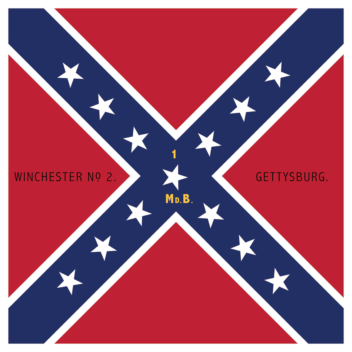 Digital Reproduction of the 2nd Maryland Infantry/1st Maryland Battalion battle flag